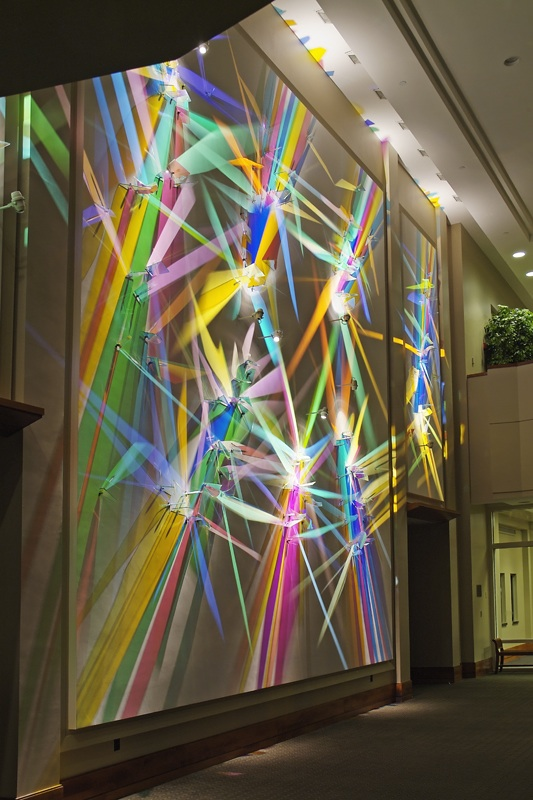 Installation view of Stephen Knapp's lightpainting First Symphony installed at Ball State University, Muncie, Indiana